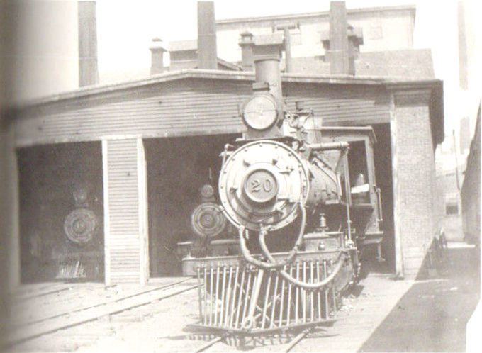 Boston, Revere Beach and Lynn Railroad locomotives 18, 8, and 20 at Orient Heights early in the 20th century